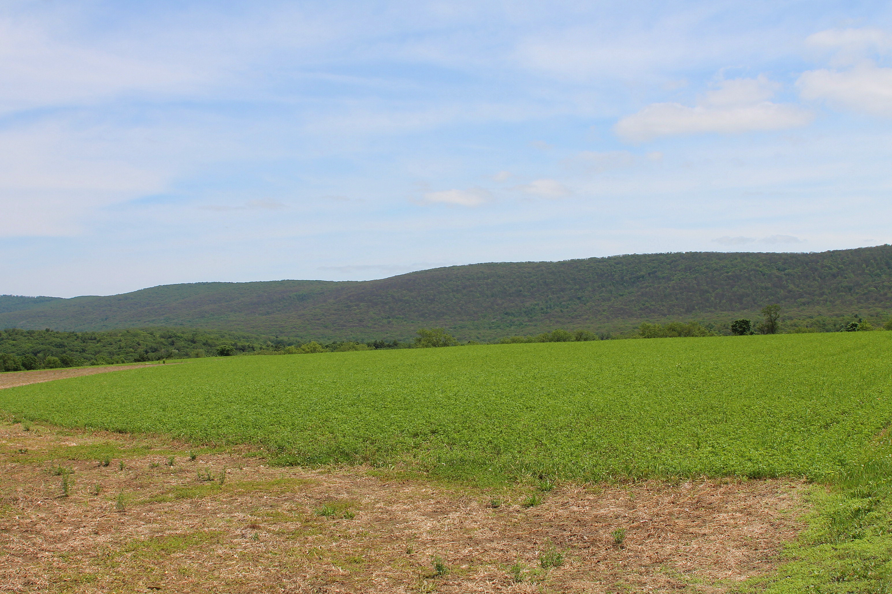 Nescopeck Mountain in June 2015, as seen from Oak Drive